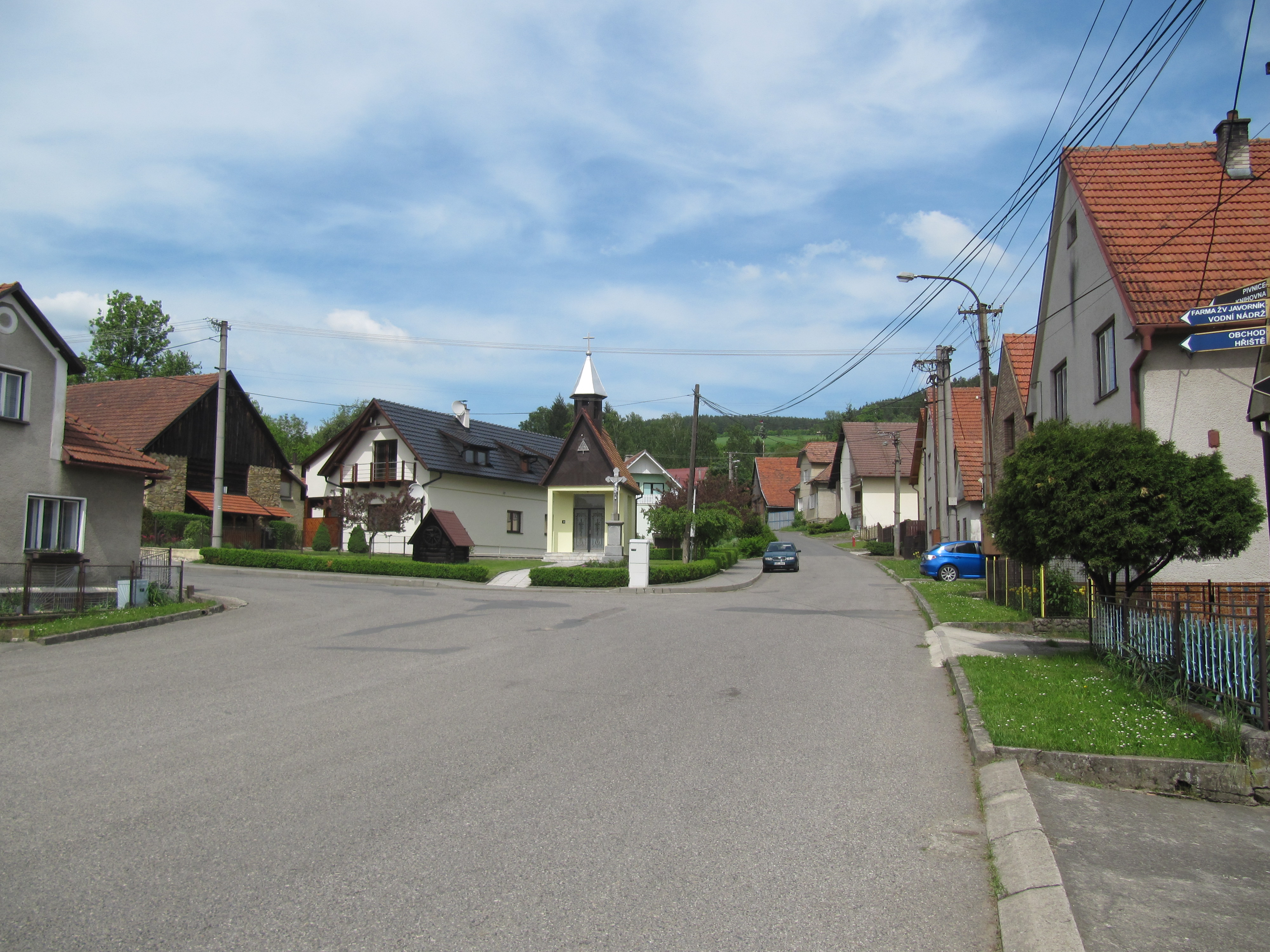 Štítná nad Vláří-Popov, Zlín District, Czech Republic, part Popov